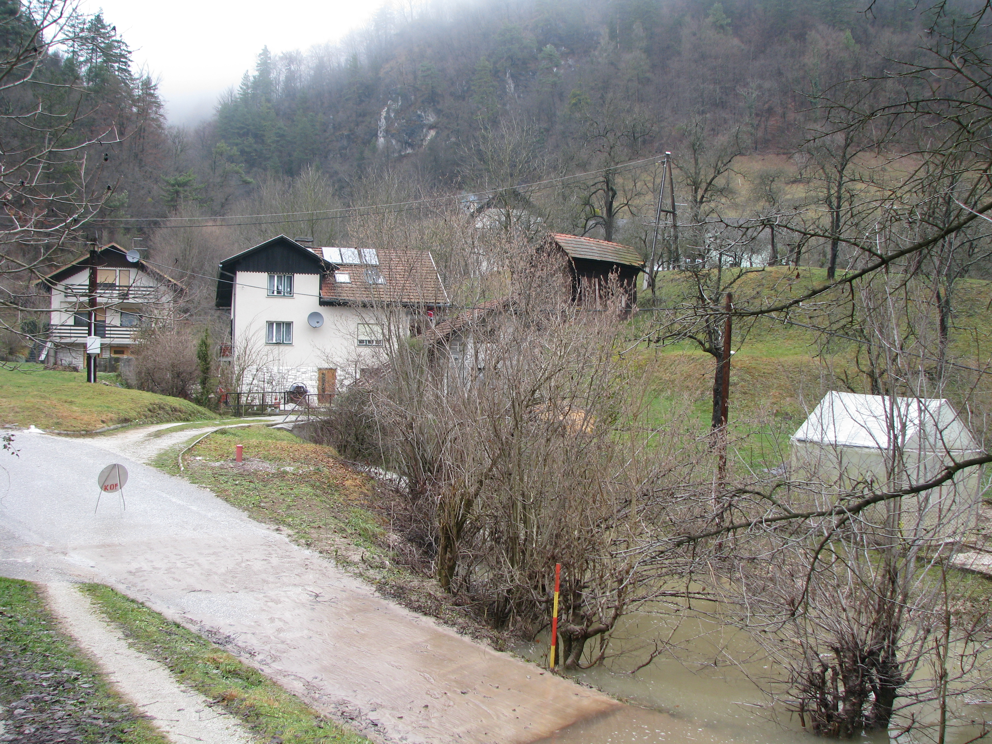 Mošenik, Slovenia, after the flood in December 2009.